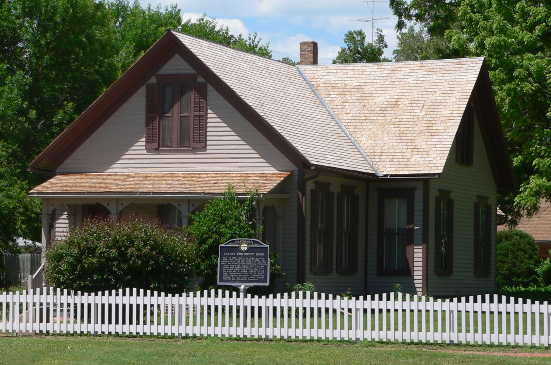 Willa Cather House on the southwest corner of 3rd Avenue and Cedar Street in Red Cloud, Nebraska; seen from the northeast. Built ca. 1878, it was Cather's home from 1884 to 1890. It is listed in the National Register of Historic Places.